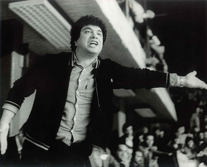 Lazar Lecic leading his team in his prime.